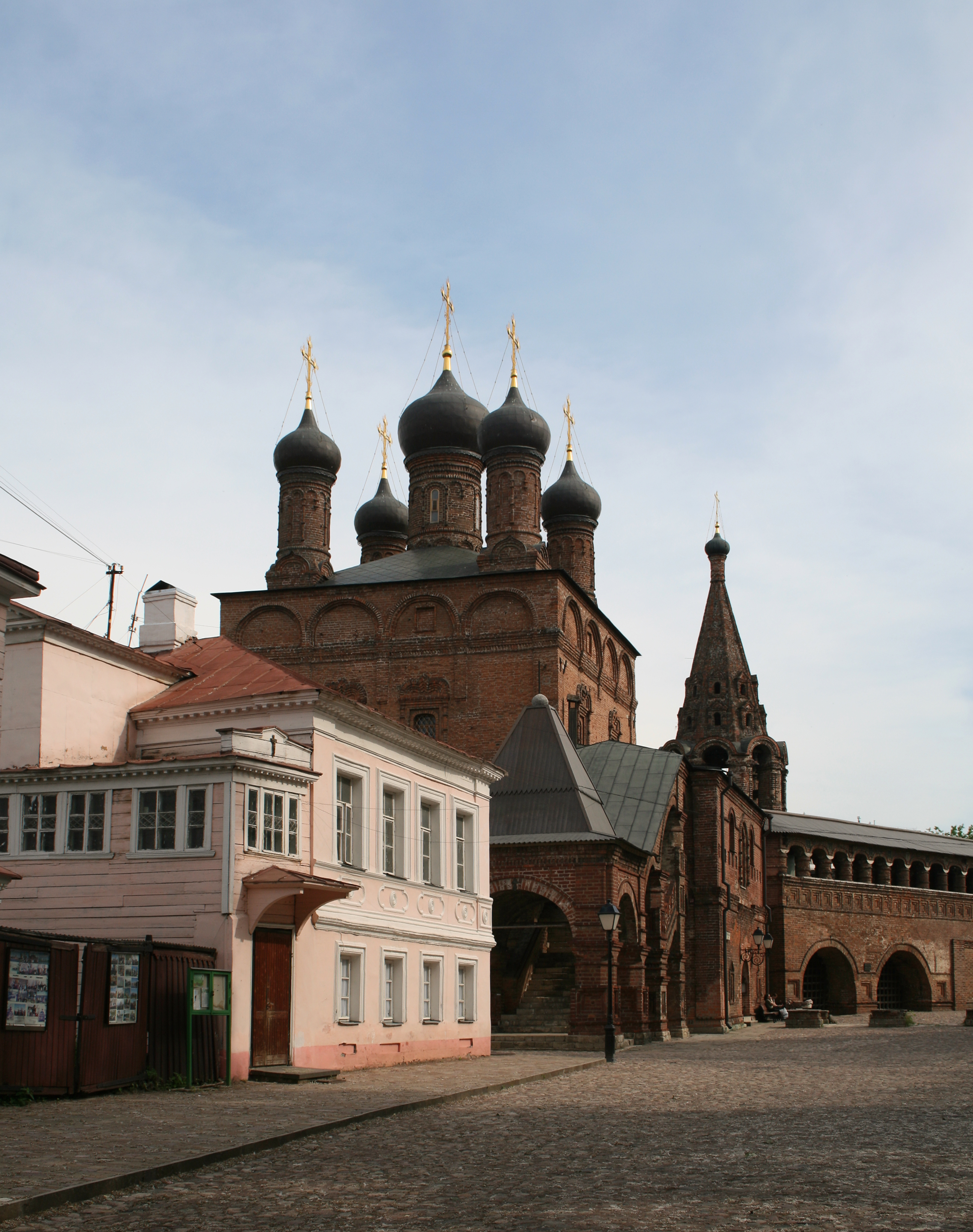 Sight of the Dormition Cathedral from Krutitsy Street, Moscow